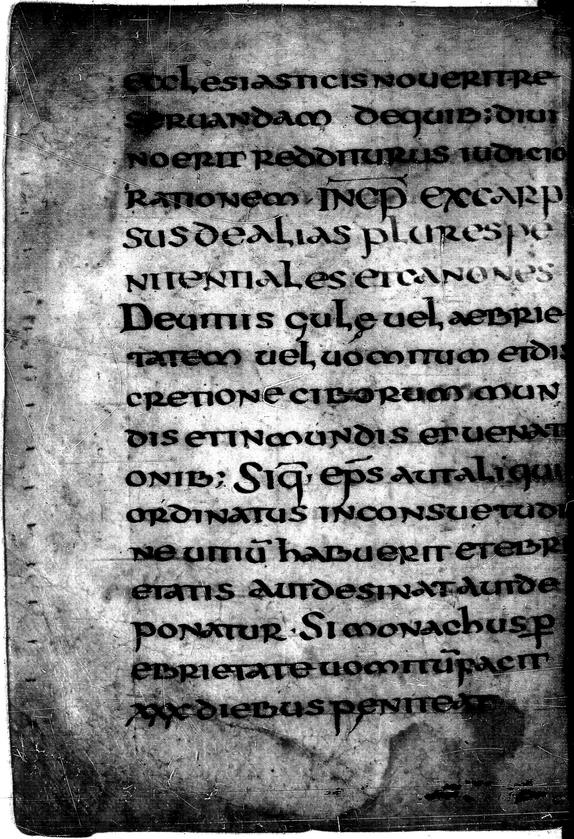 Copenhagen, Kongelige Bibliotek, Ny Kgl. Sam. 58 (8°), fol. 1v